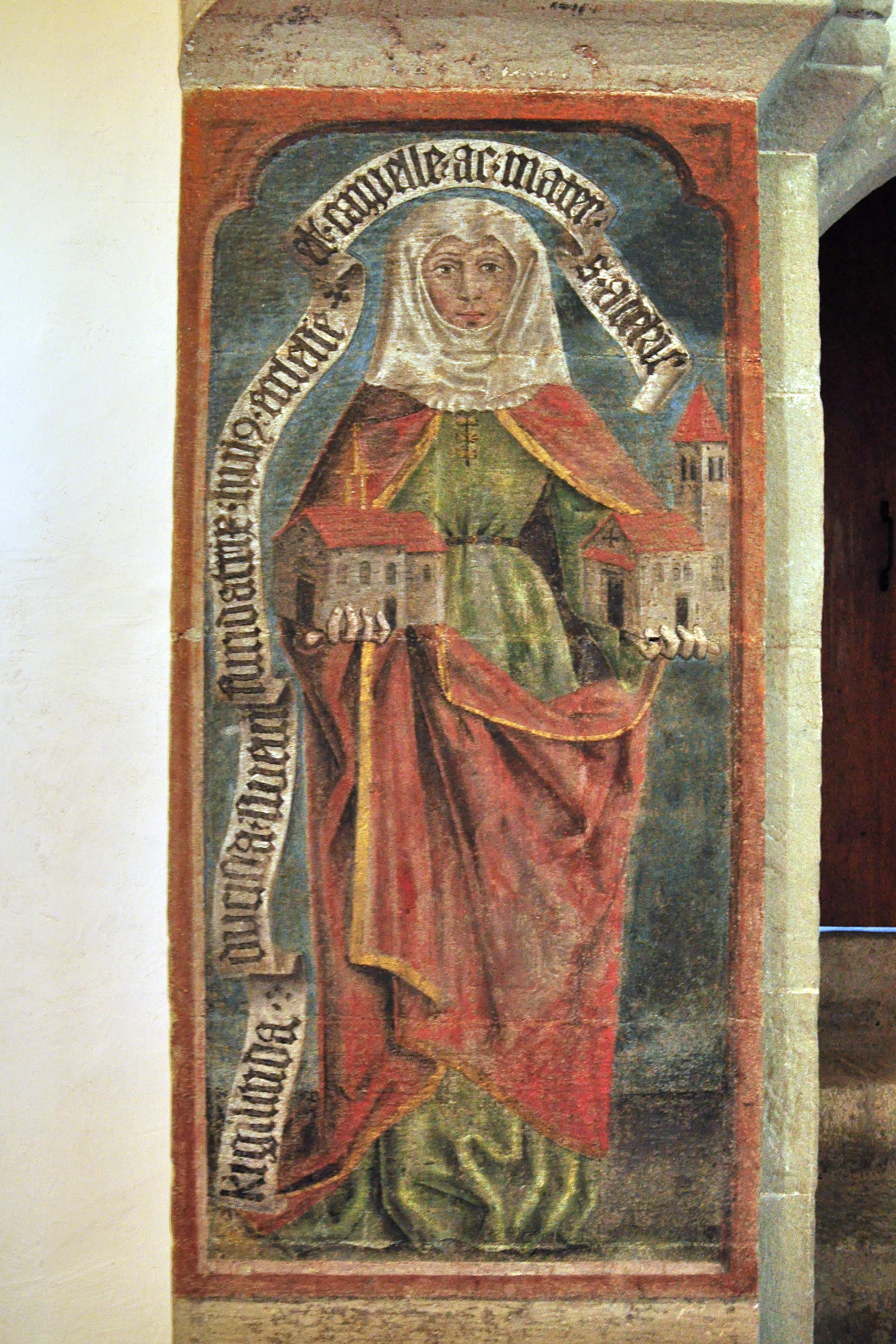 Regelinda, Duchess of Swabia, the mother of St. Adalrich. St. Peter und Paul was built in 1142, a former building is first mentioned in 970 A.D. St. Peter und Paul was for centuries a Parish church, situated on the Ufenau island (Zürichsee) in Switzerland. Ulrich von Hutten (*1488; †1523) refuged on the island and is buried besides St. Peter und Paul.